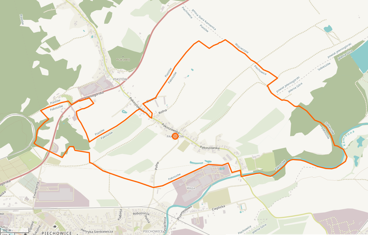 Pakoszów - district of Piechowice